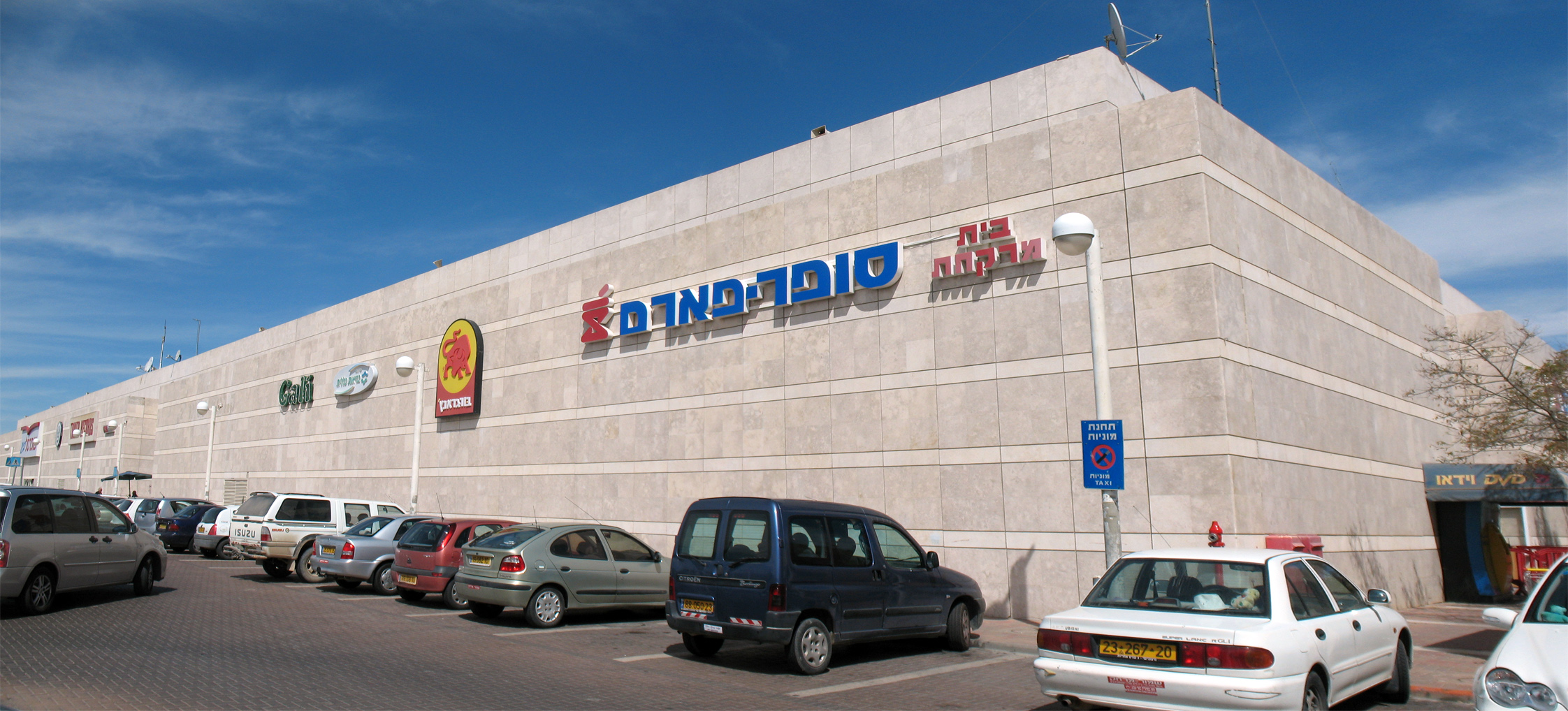 The Arad Mall from the outside. Arad, Israel. Includes a SuperPharm.